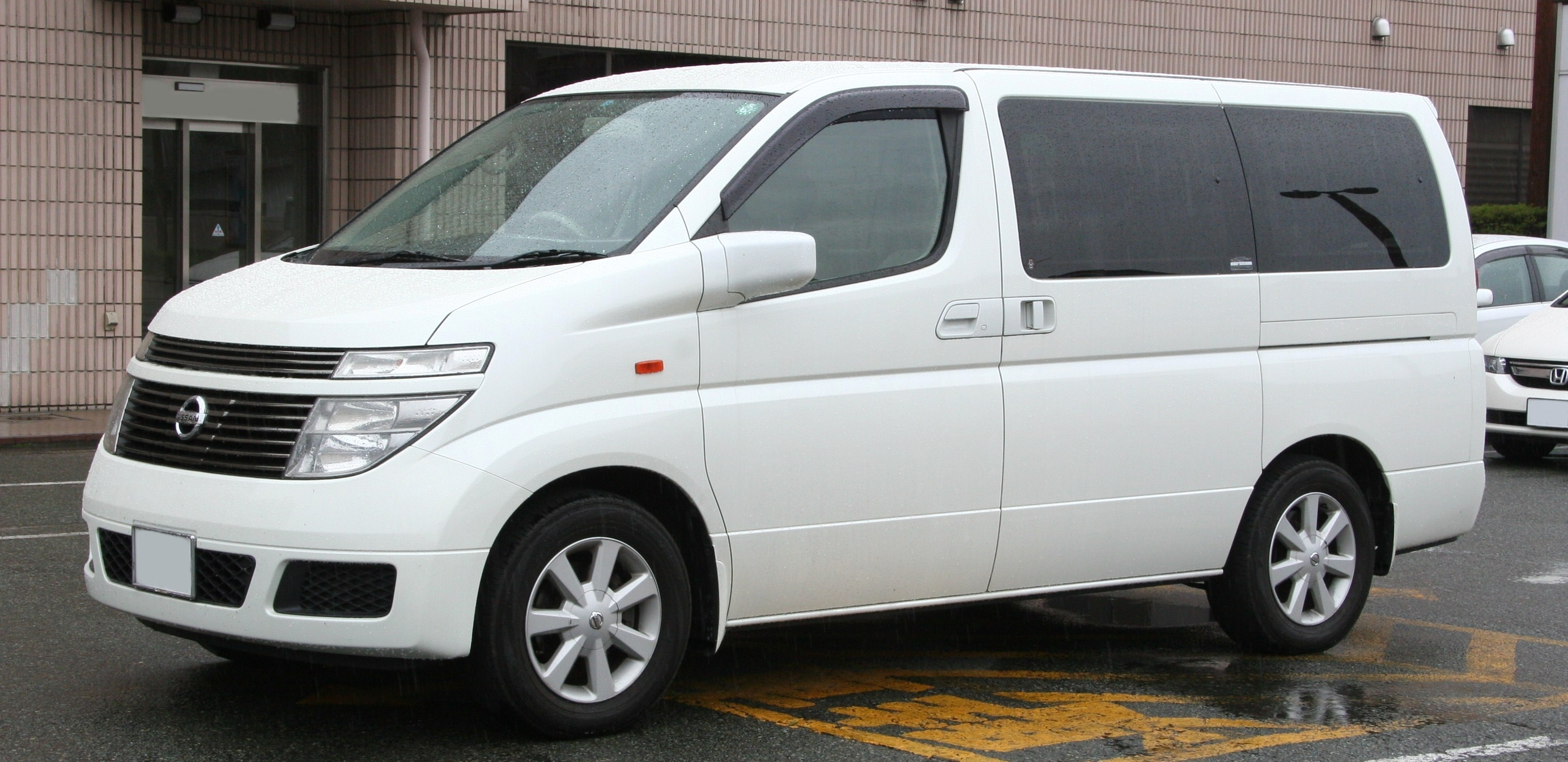 NISSAN ELGRAND